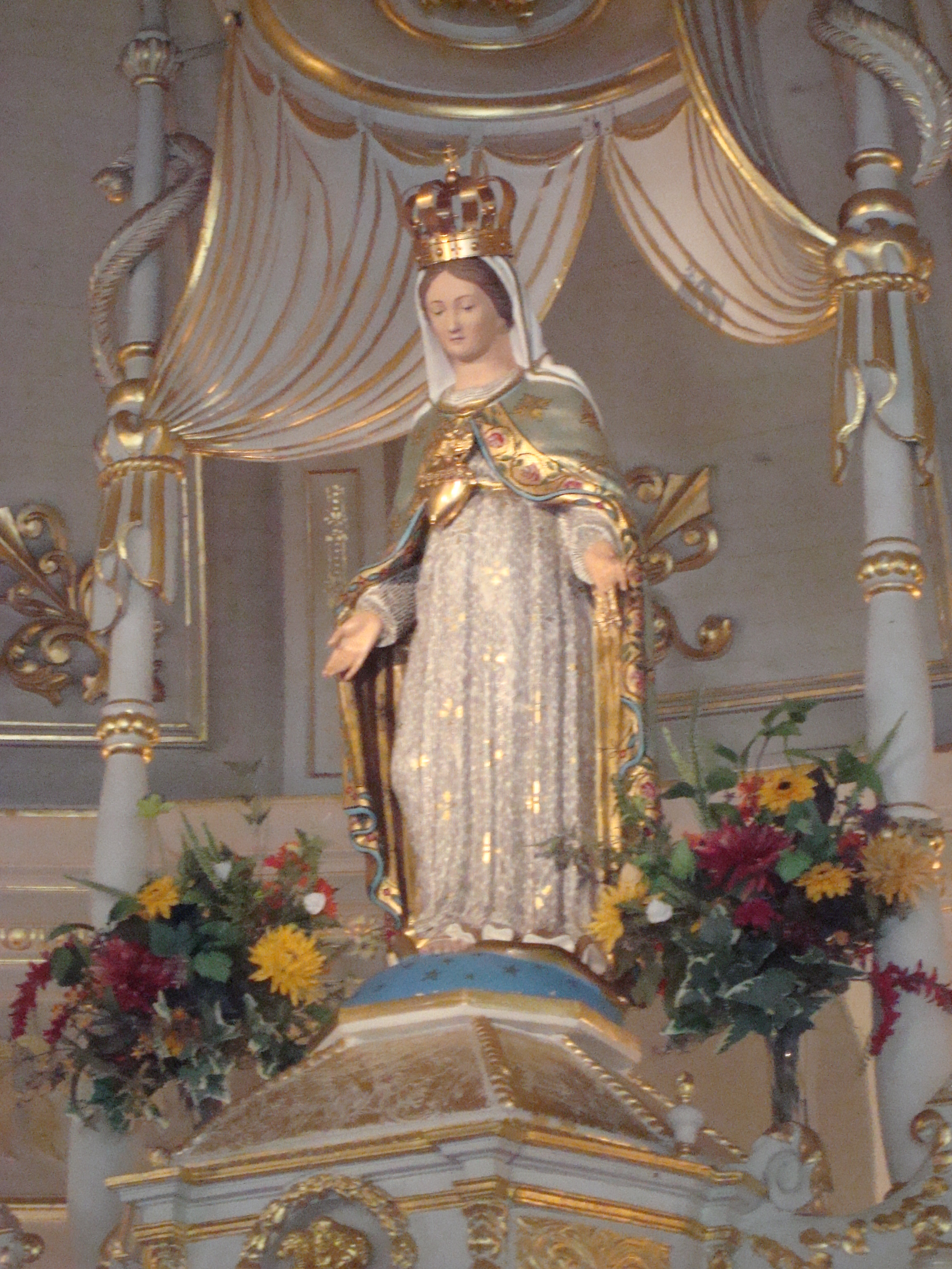 The Statue which opened her eyes in 1888.